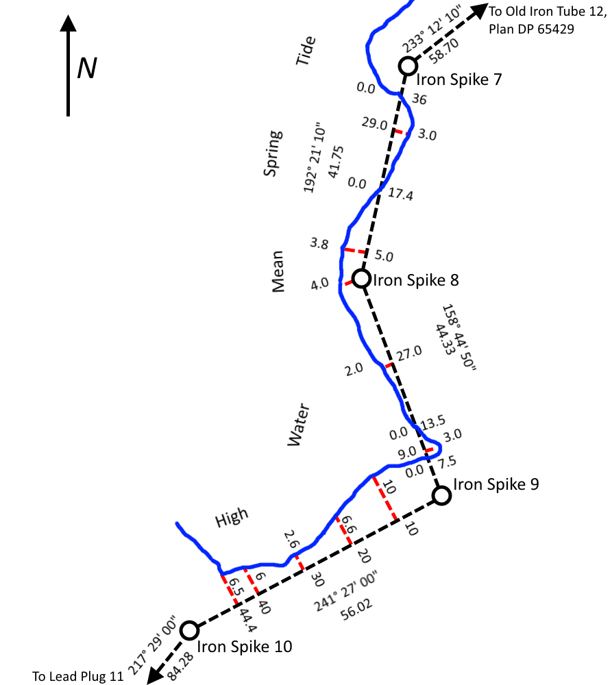 A simplified tracing of part of North Auckland Deposited Plan 79152 showing survey reference markers, traverse lines and offset measurements used to determine the location of a shoreline being used as a legal boundary line. This work is based on/includes LINZ’s data which are licensed by Land Information New Zealand (LINZ) for re-use under the Creative Commons Attribution 3.0 New Zealand licence.